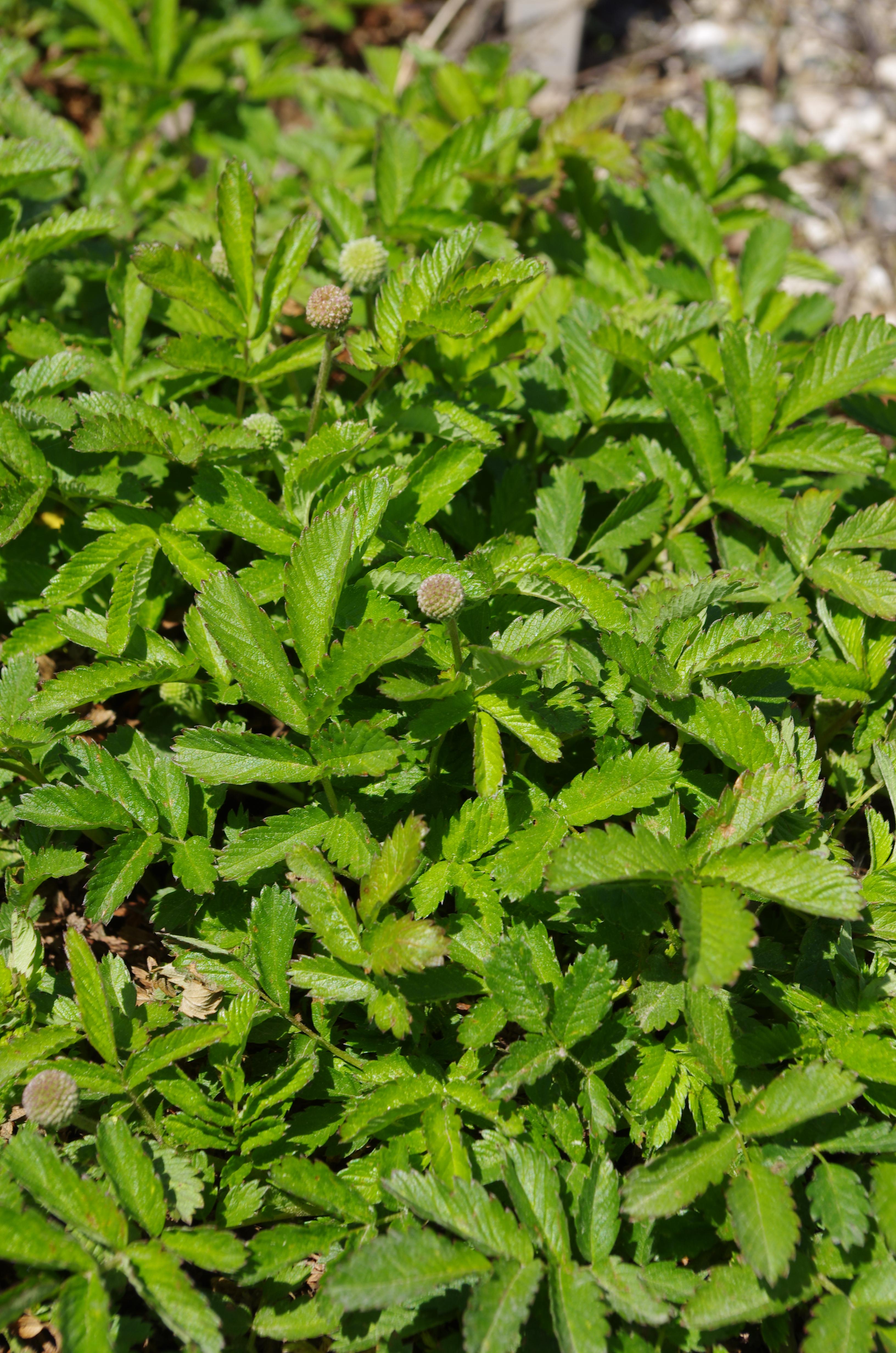 Acaena magellanica at the ÖBG Bayreuth